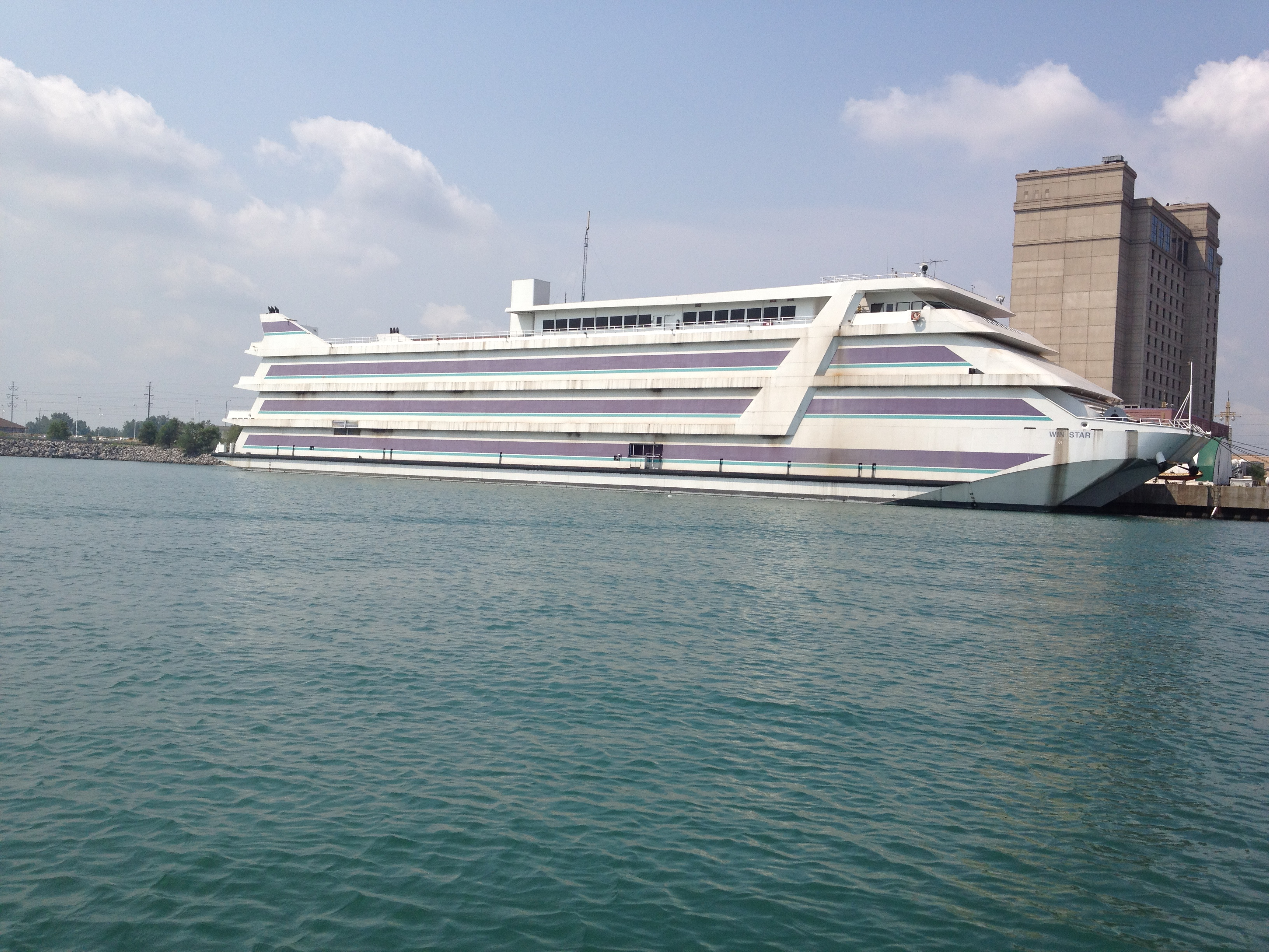 The Win Star casino boat in Lake County, Indiana on July 1, 2012.